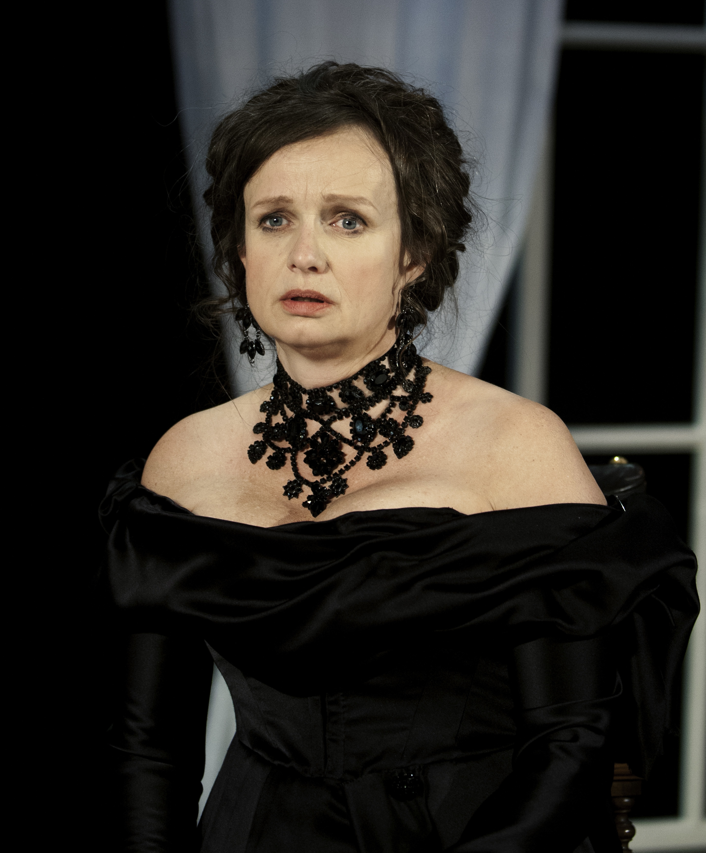 Maria Kulle in The Cherry Orchard at Helsingborgs stadsteater.